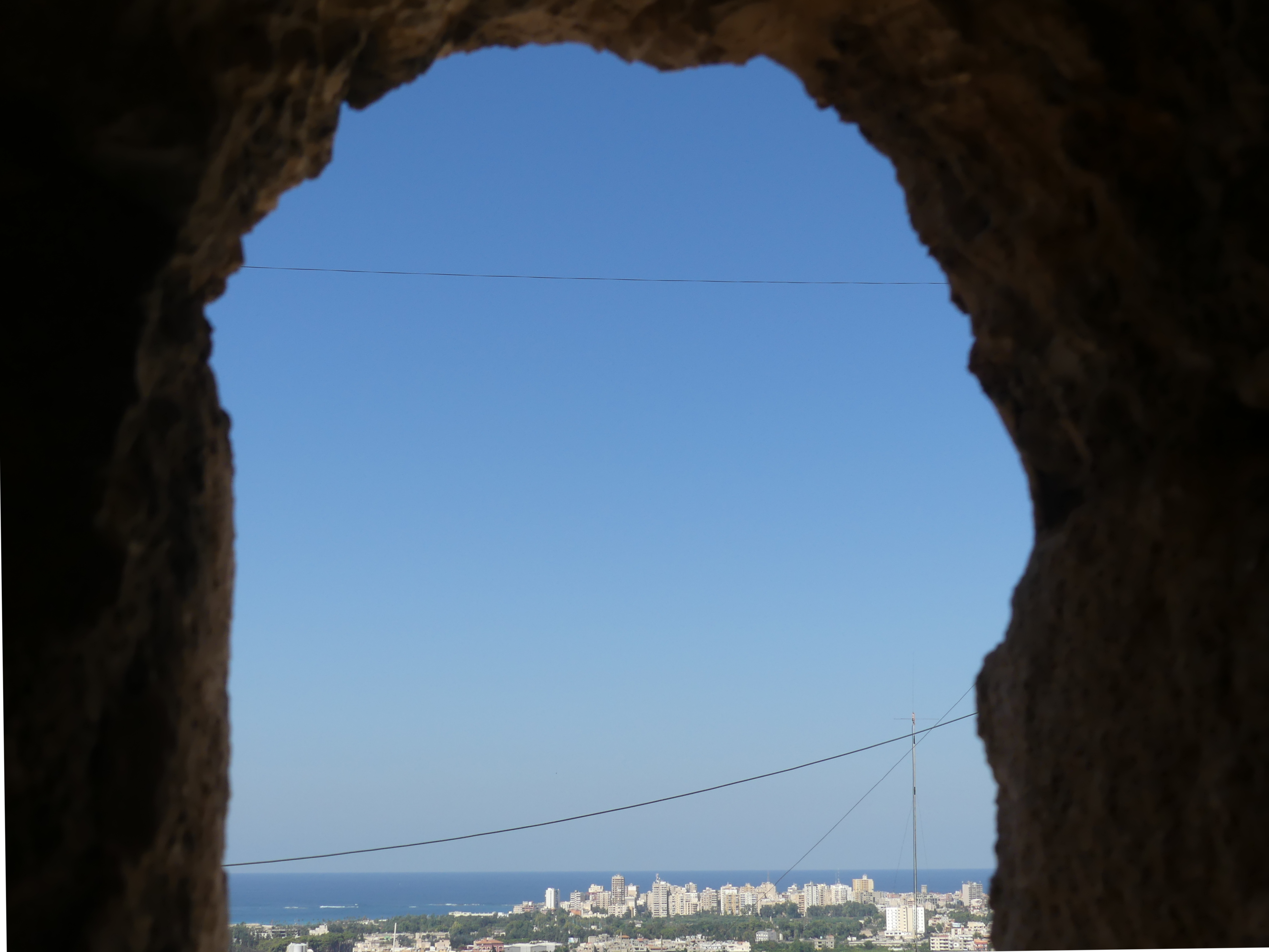 The 12th/13th century Crusader Tower in the village of Burj el-Shimali ("Northern Tower") overlooking the city of Tyre/Sour in Southern Lebanon